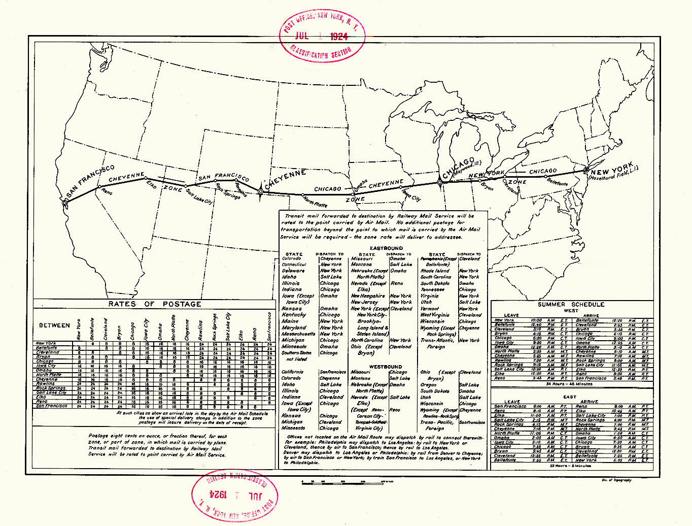 U.S. Post Office Department map of the First Transcontinental Air Mail Route involving both day and night flying over the entire route opened July 1, 1924. Source: The Cooper Collection of Aero Postal History